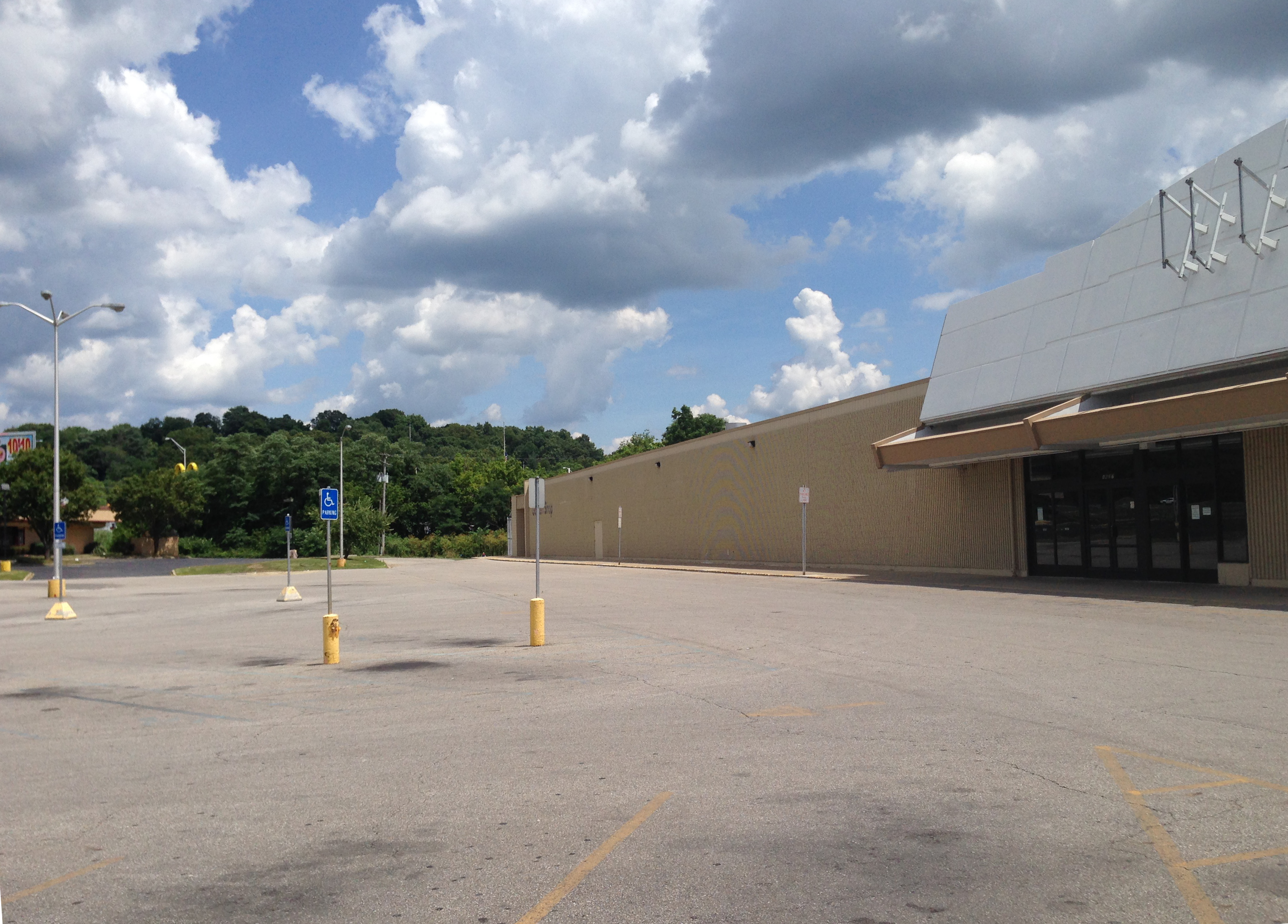 Kmart and Sears in Lancaster, Ohio going out of business